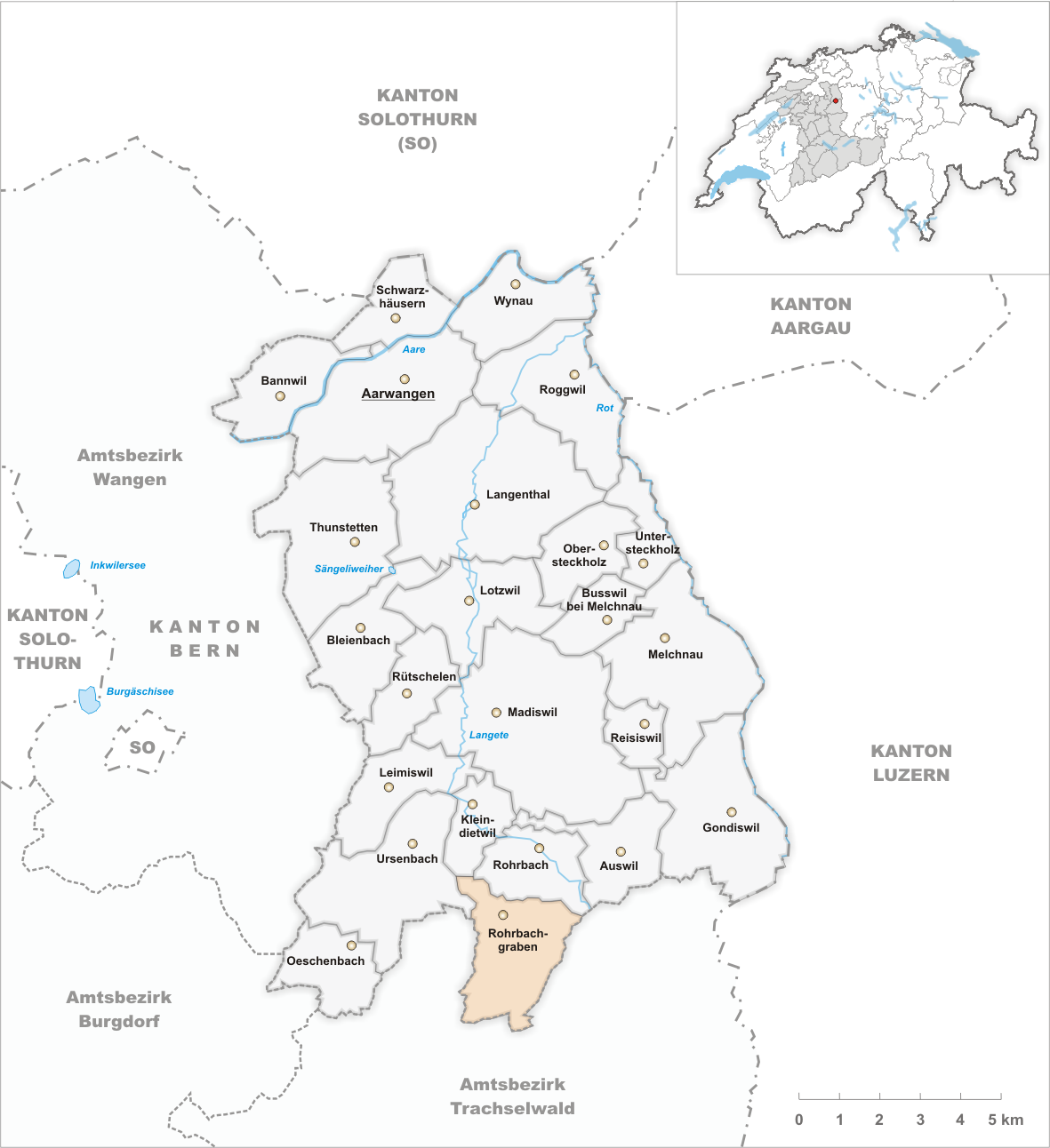 Municipality Rohrbachgraben